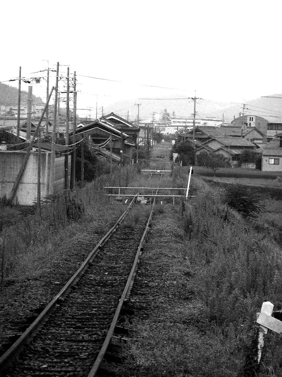 Miki Railway Sosa Station